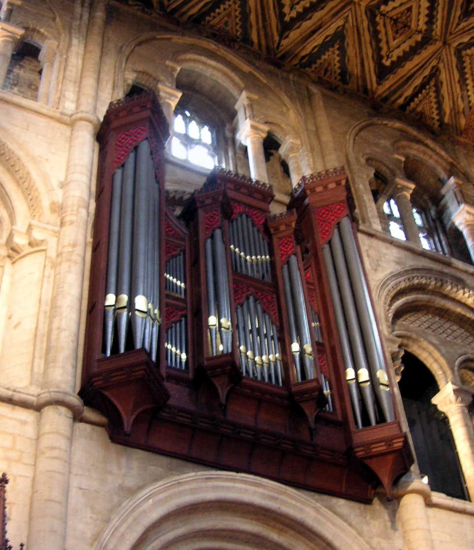 Peterborough Cathedral, the Organ